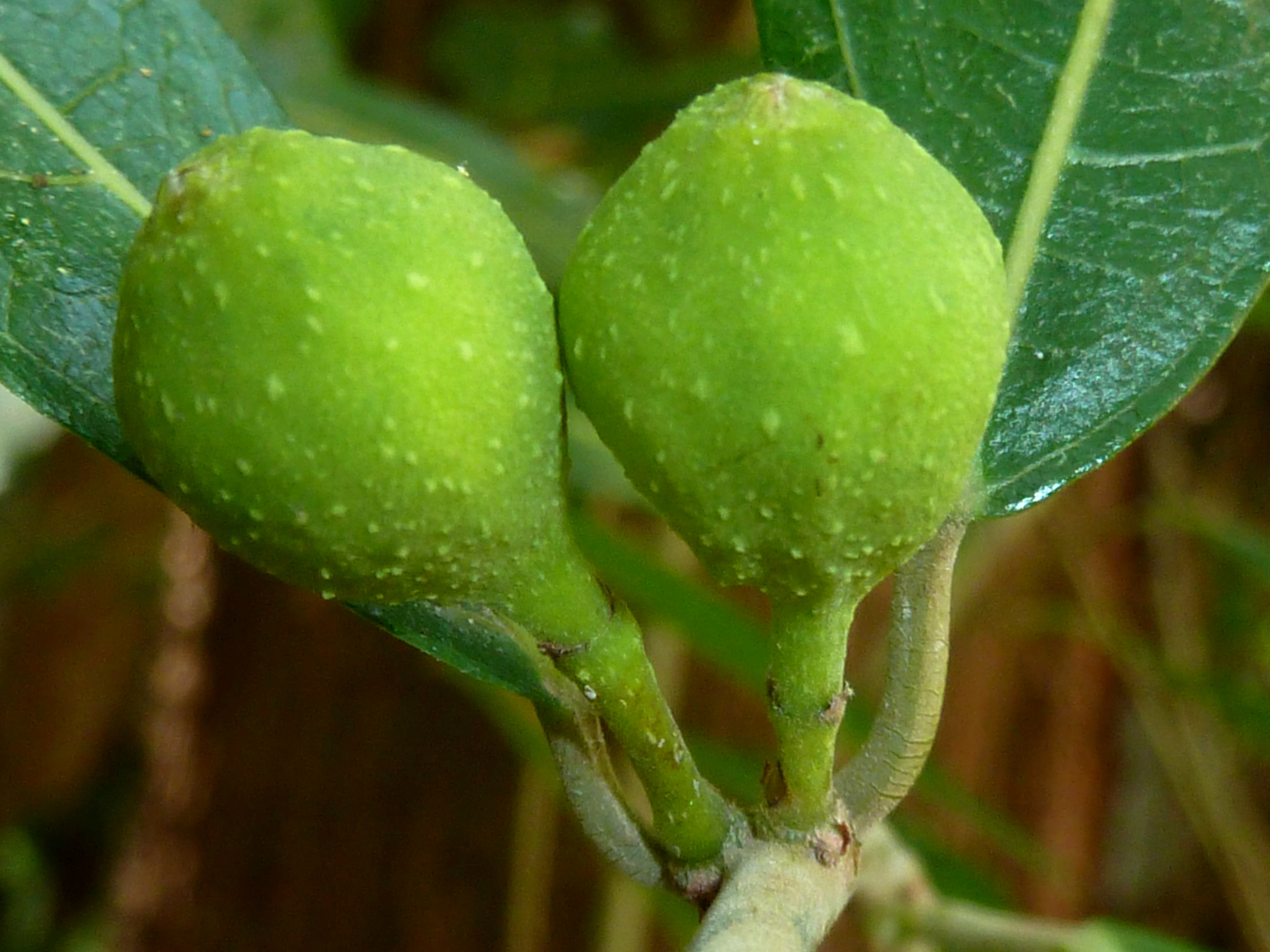 Figs in leaf axils of a River sandpaper fig in the Manie van der Schijff Botanical Garden, University of Pretoria